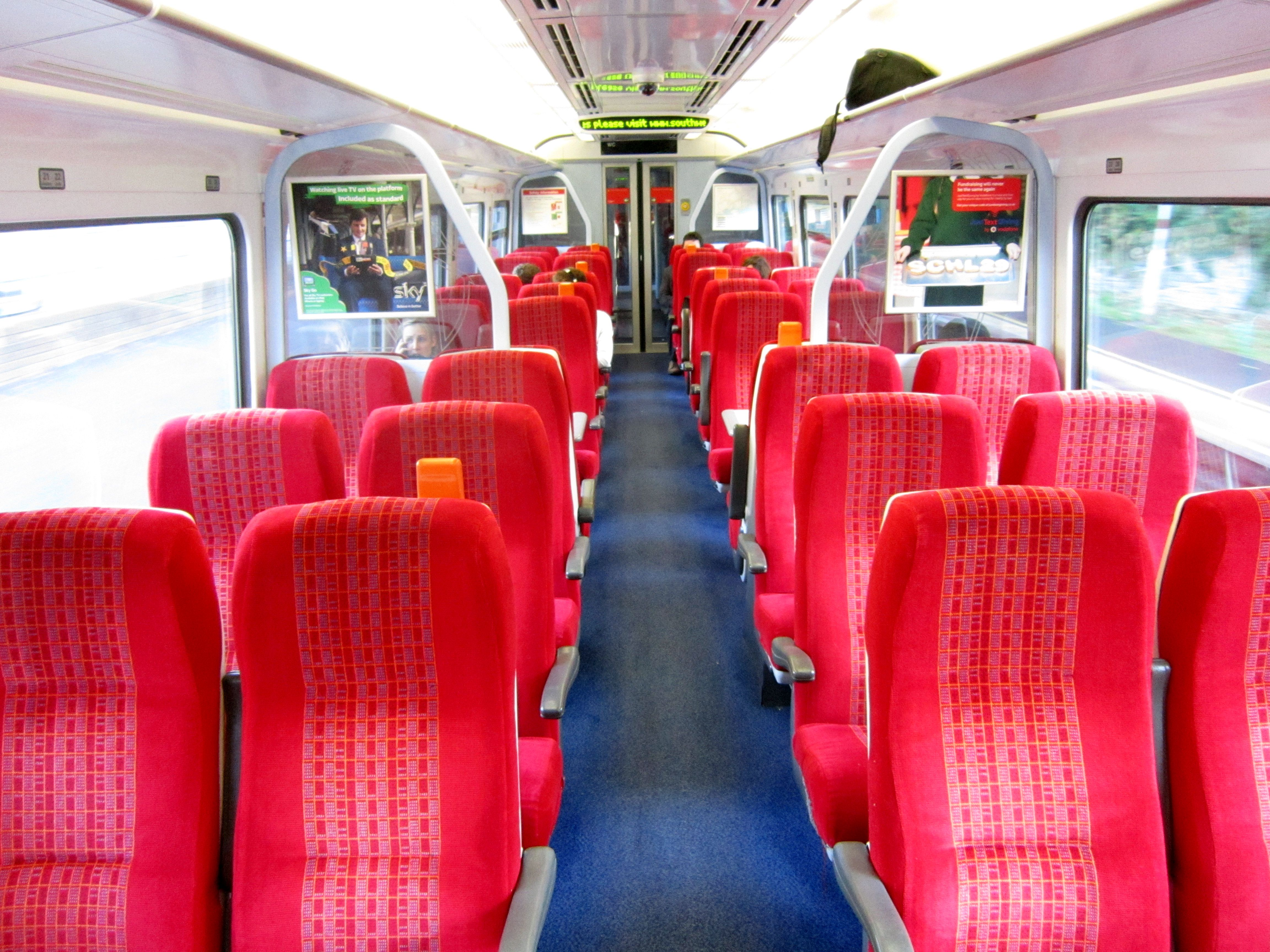 Interior of British Rail Class 159 Standard Class. Like File:159014 B Exeter St Davids B MSO Interior.JPG but brighter.